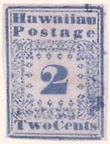 First stamp of Hawaii, 2 c., 1851